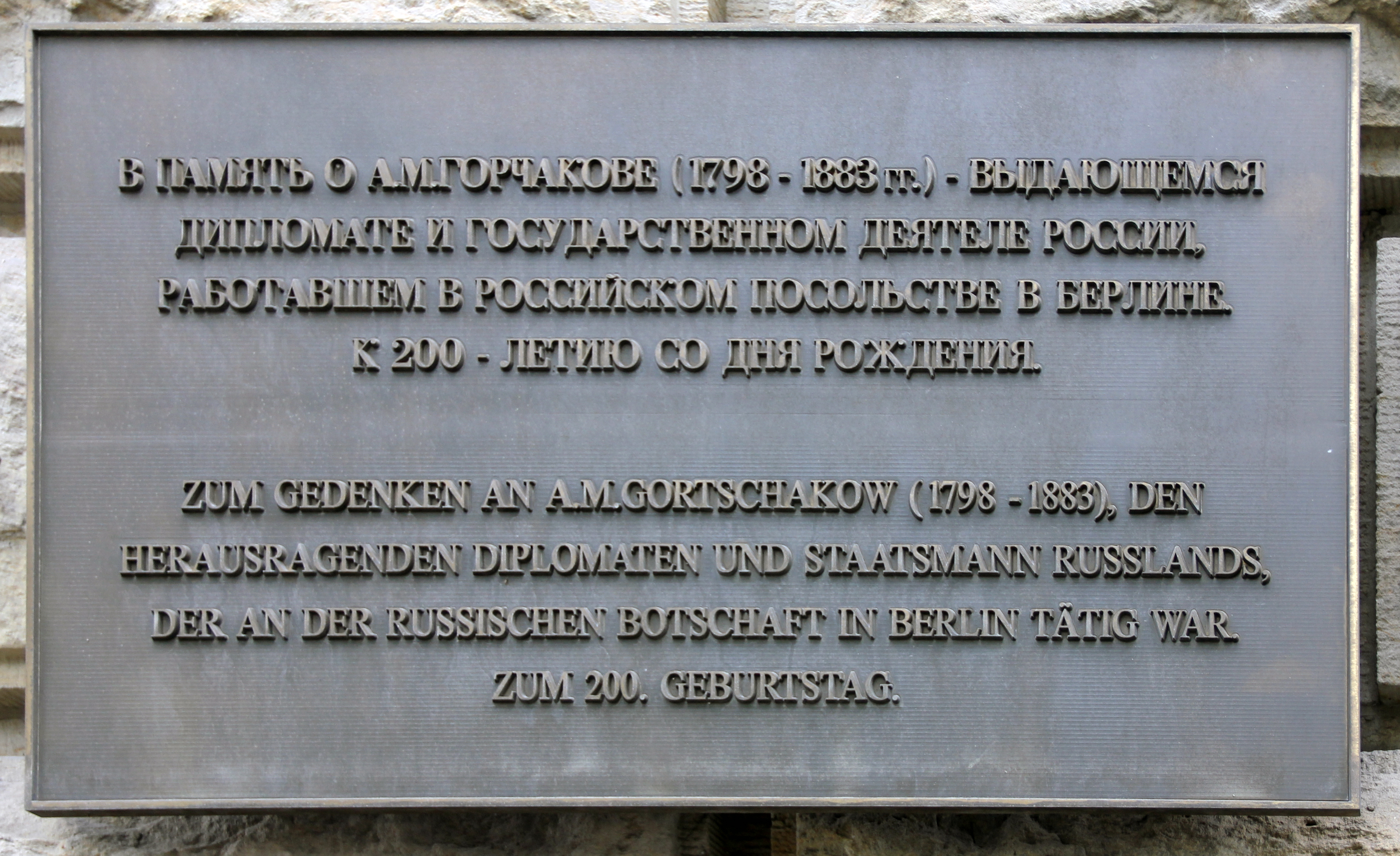 Memorial plaque, Alexander Michailowitsch Gortschakow, Unter den Linden 63, Berlin-Mitte, Germany